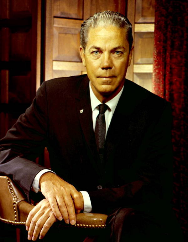 Portrait of W. Haydon Burns, Governor of Florida